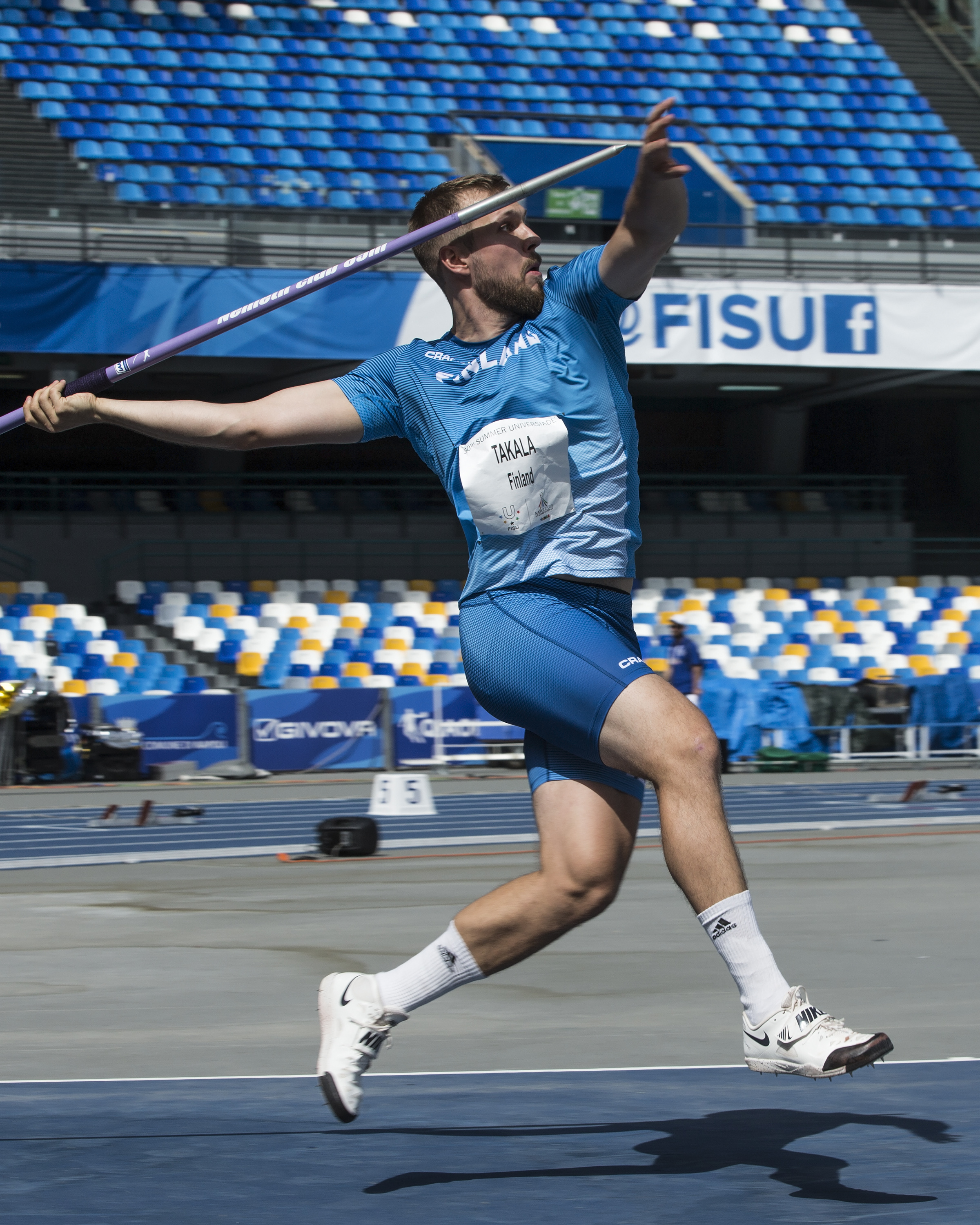 Javelin thrower Teo Takala of Finland in Stadio San Paolo of Naples, Italy during the qualification rouds of the Napoli Summer Universiade Athletics on July 9th 2019